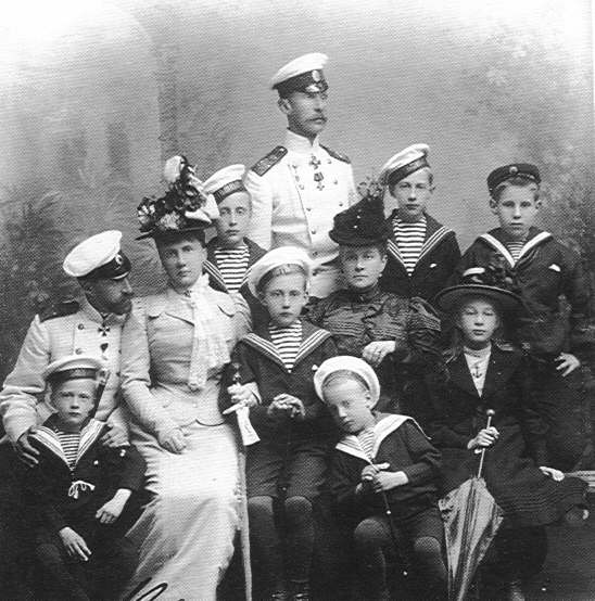 Grand duke Dimitri Constantinovich surrounded by his family